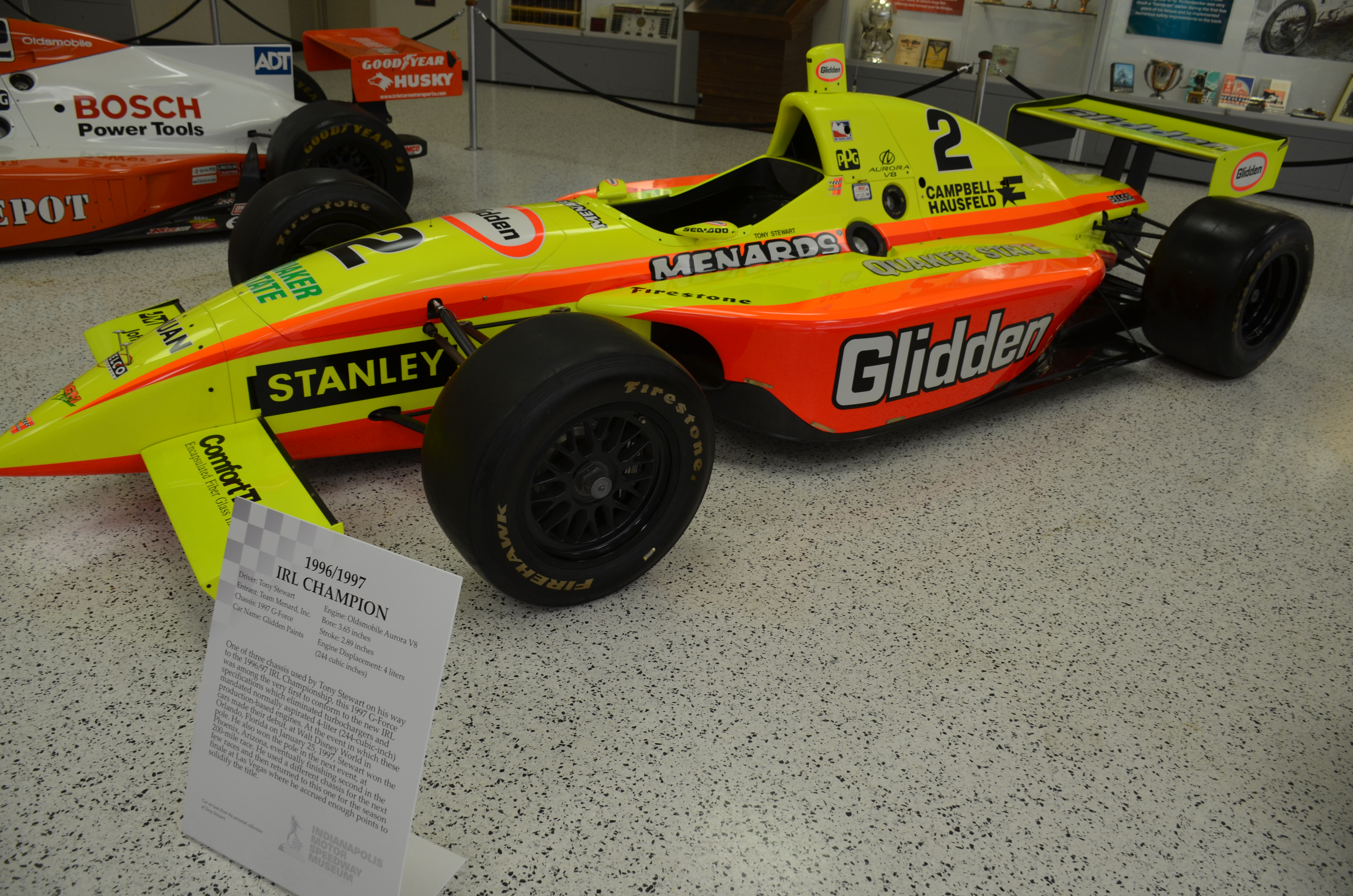 Tony Stewart's 1996-97 IRL Championship car at the Indianapolis Motor Speedway Museum